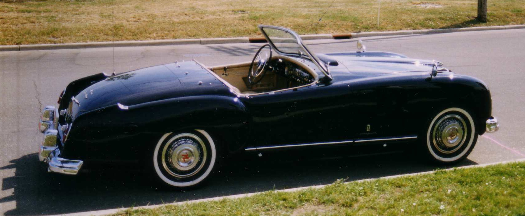 Nash-Healey - roadster finished in black. The two-seat sports car was produced for the American market between 1951 and 1954. Marketed by Nash-Kelvinator (merged into American Motors Corporation [AMC] in 1954) with a U.S. built Nash Ambassador drivetrain in a European chassis and body. Picture taken in Kenosha, Wisconsin.